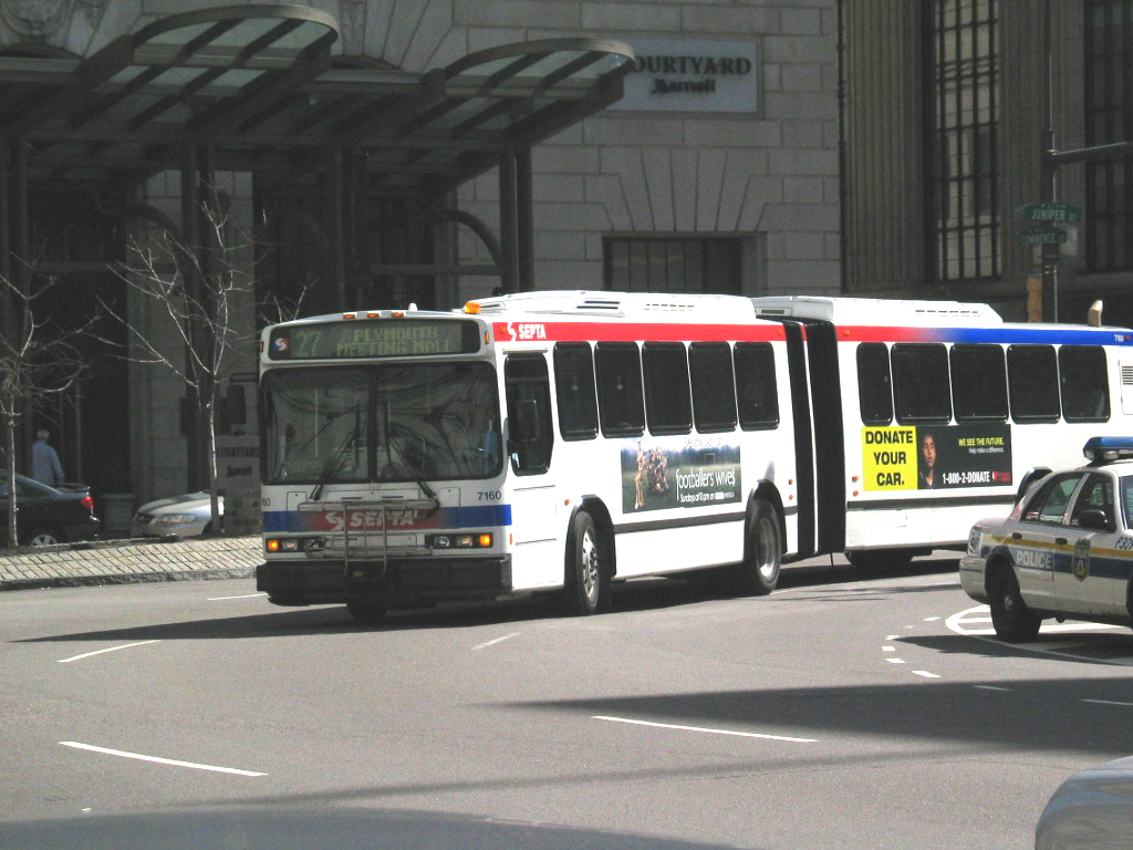 A SEPTA 60' articulated bus on Route 27 making a turn around Philadelphia's City Hall